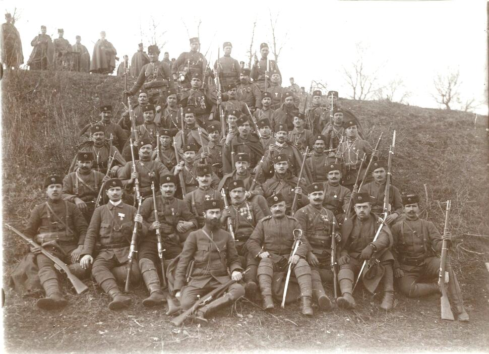 Todor Alexandrov's datachment